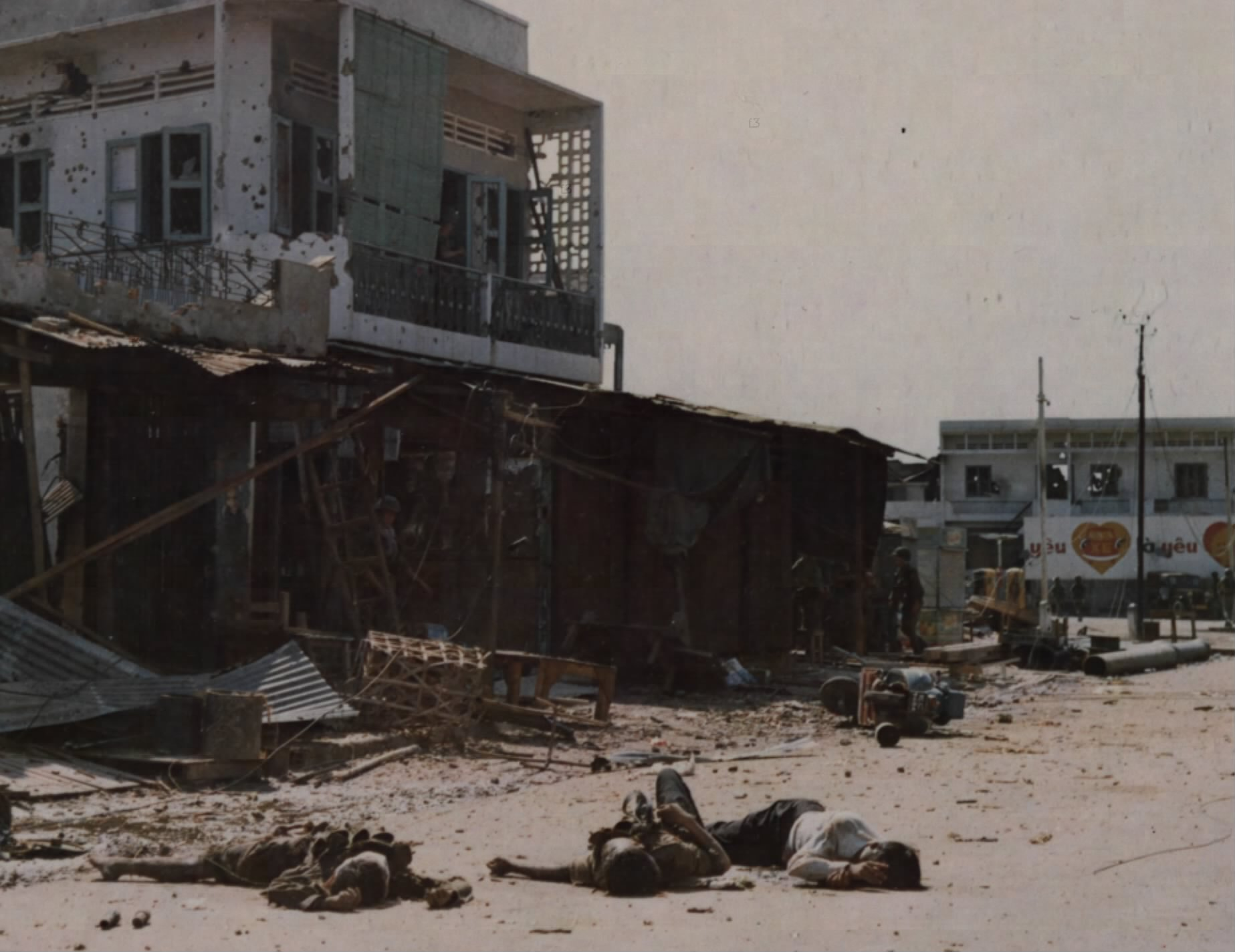 Tan Son Nhut. The bodies of three PAVN soldiers lay in the street just off Plantation Road in an area which was devastated by air strikes and fires during a battle in and around the Old French Cemetery.